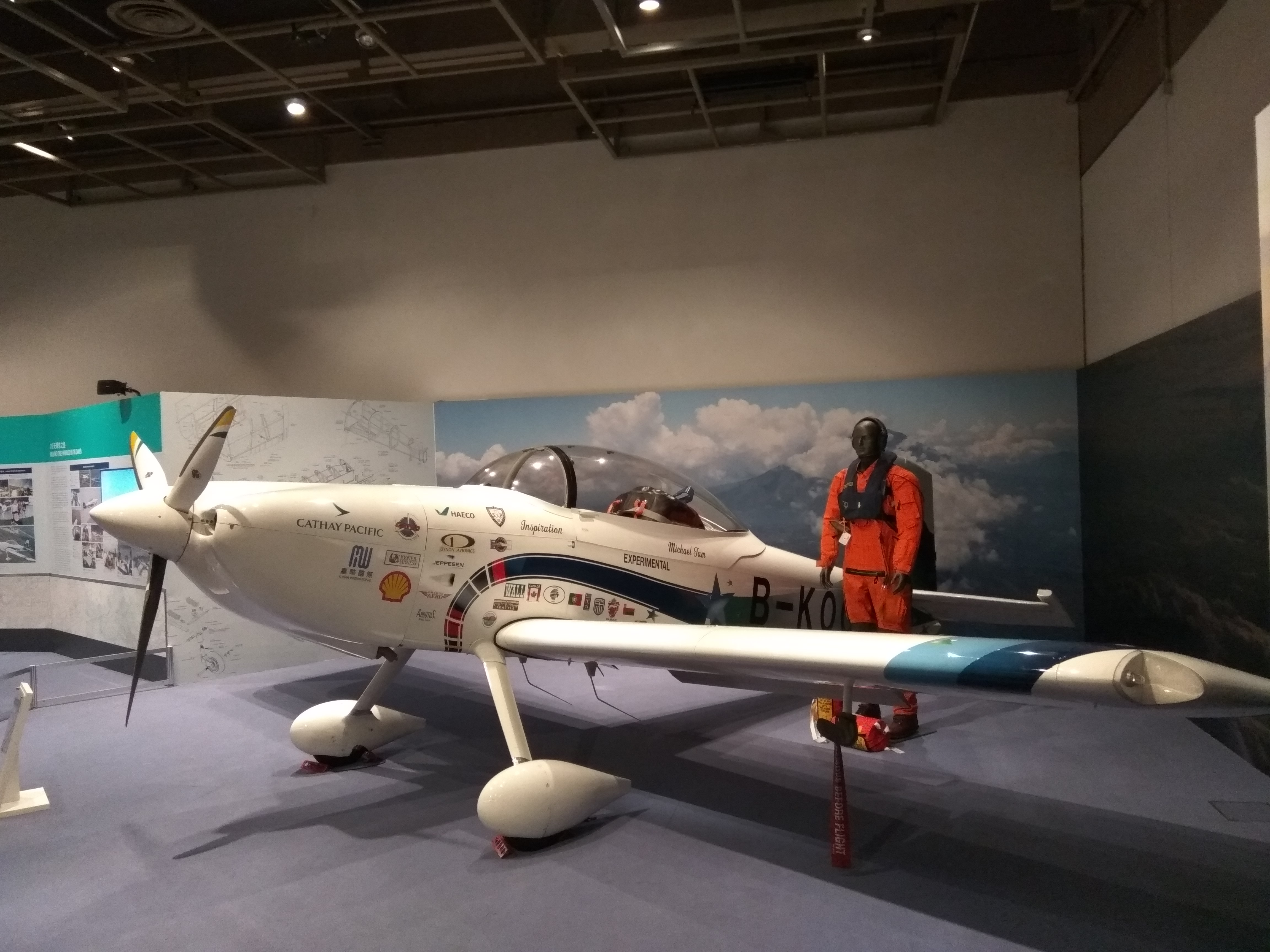 The B-KOO, named "Inspiration", is the first homebuilt aircraft certified in Hong Kong. The photo was taken in Hong Kong Science Museum.